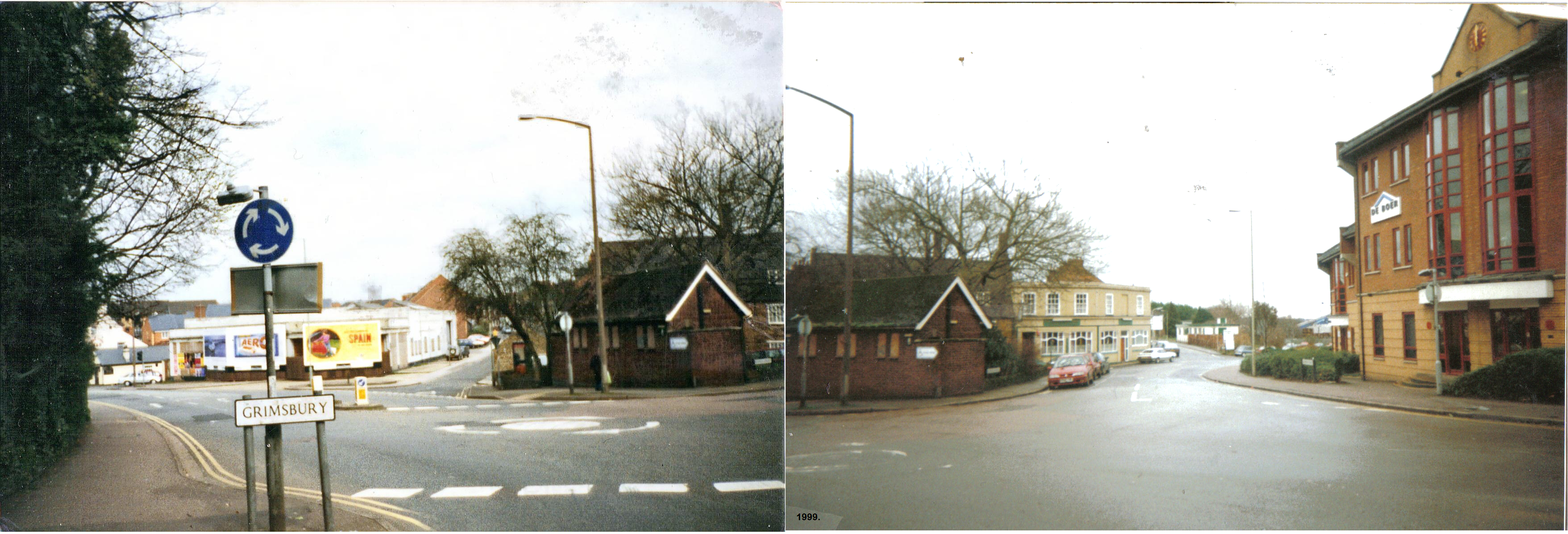 We took these picture of Banbury town our selves. It's improved no end, It's a lot better than before. The Irish pub was reduced in size and renovated, a house was built on part of the old pub, the public toilet was removed in favour of a 'green space' (a very small park) and the garage became a Londis shop. The demolitions were in 2004, the refurbishment and building work was in 2007 and the Londis shop opened in 2008. The year 2000 is on the left and the year 1999 is on the right. I, like the previouse, here by release it in to the public domain.